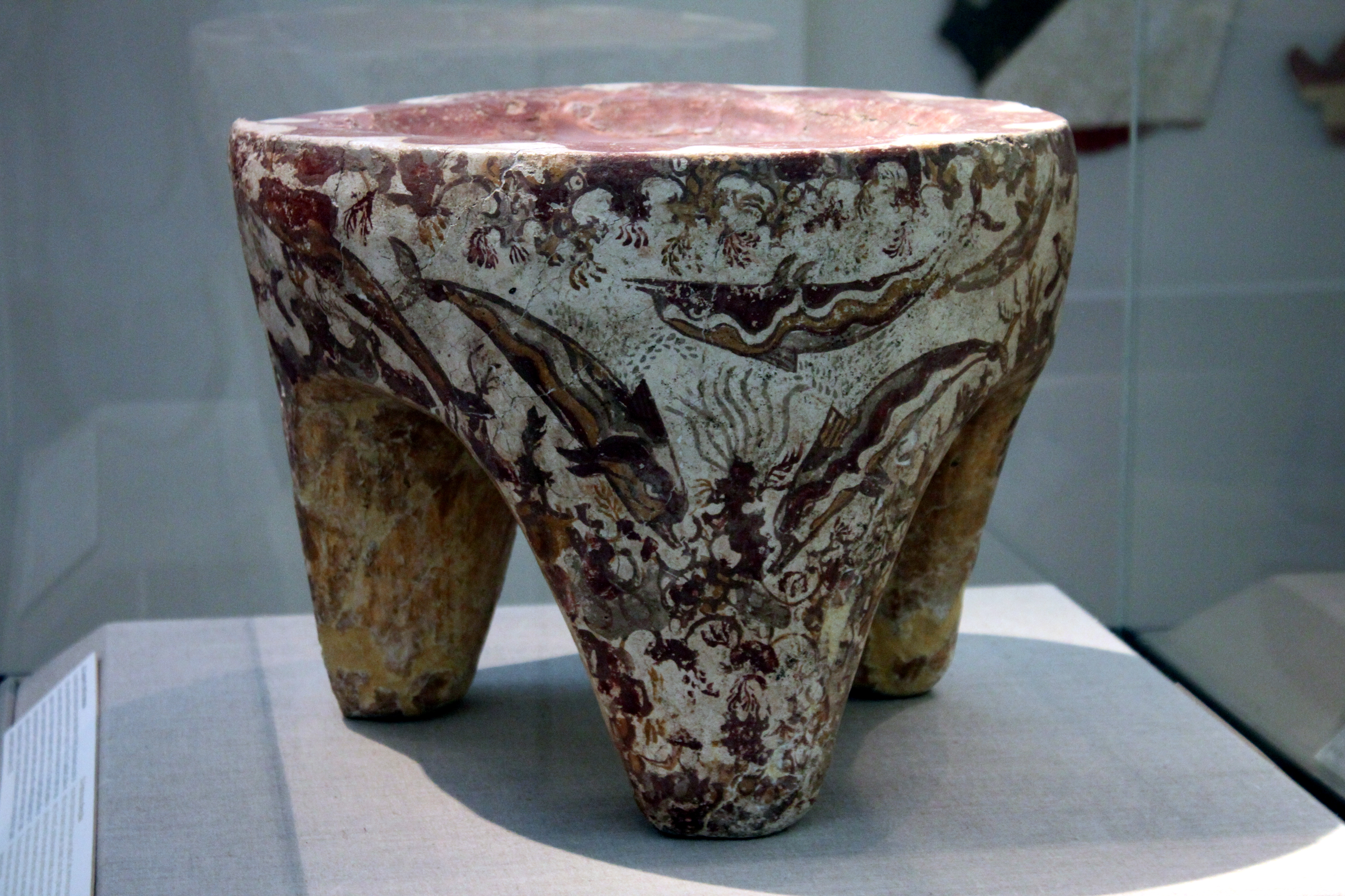 "Offering Table with dolphins", Akrotiri, Mature Late Cycladic I Period (17th B.C.) cut from pumice The decline or the flourishing?